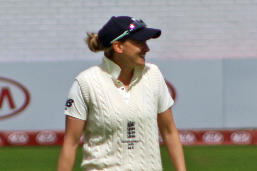 Laura Marsh in the field during the 2019 Ashes Test at the County Ground, Taunton